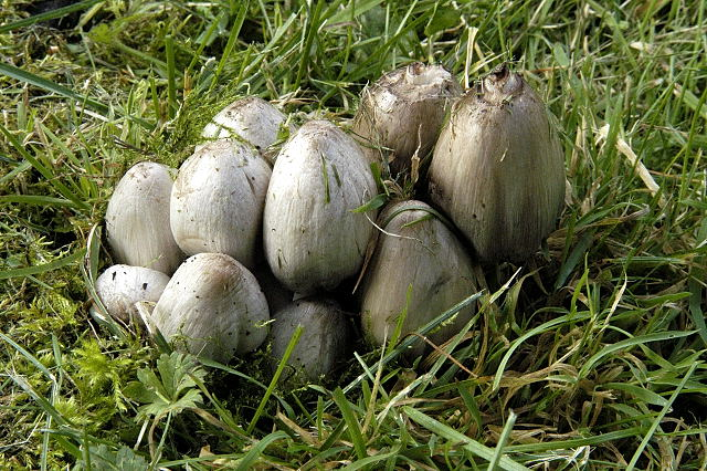 Coprinopsis atramentaria from Commanster, Belgium. The determination of the species shown in this picture has been verified.